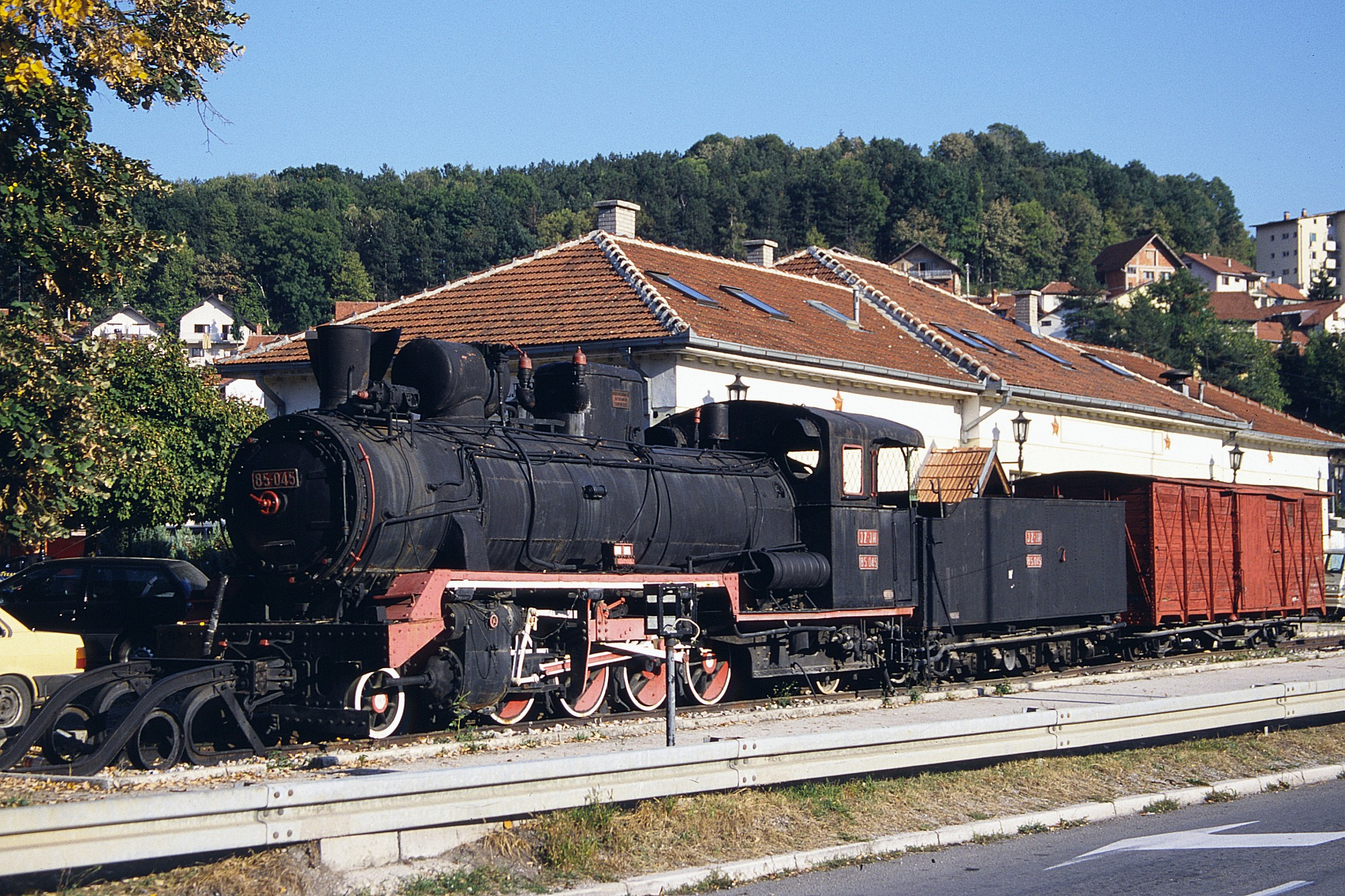 Former Yugoslavian States Railway JDŽ 85-045 on plinth in Užice, Serbia.